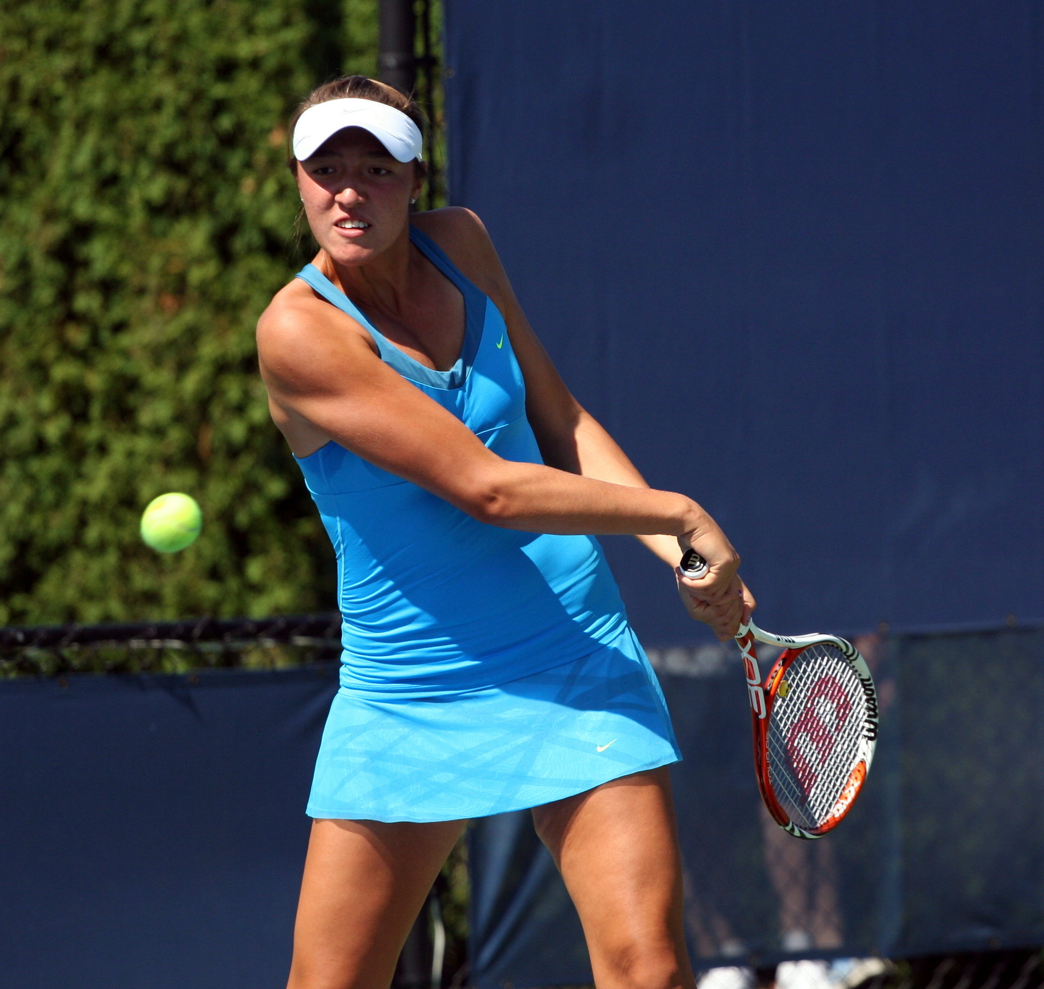 Samantha Crawford at the 2012 US Open